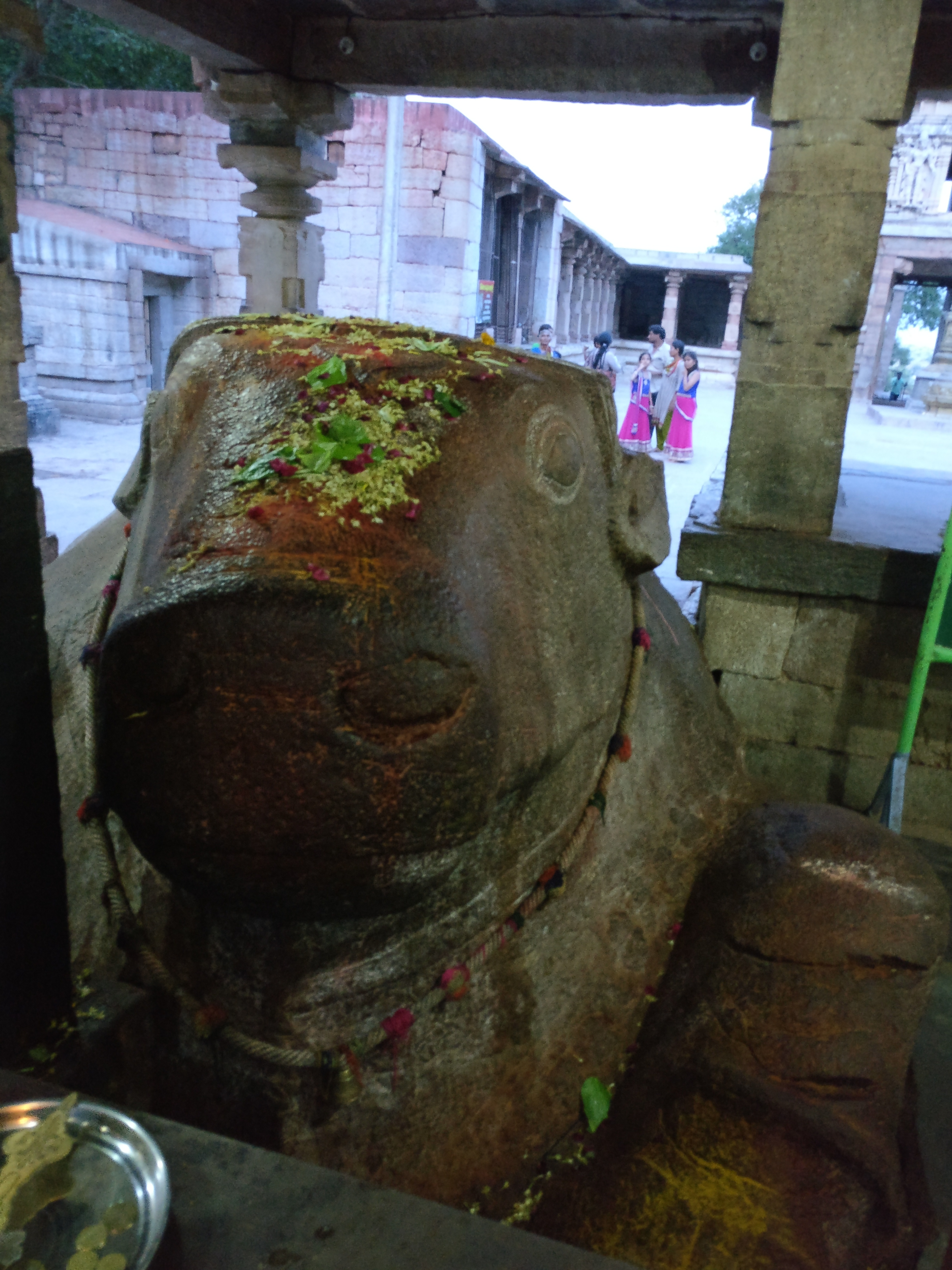 Nandi (bull) in Yaganti Temple